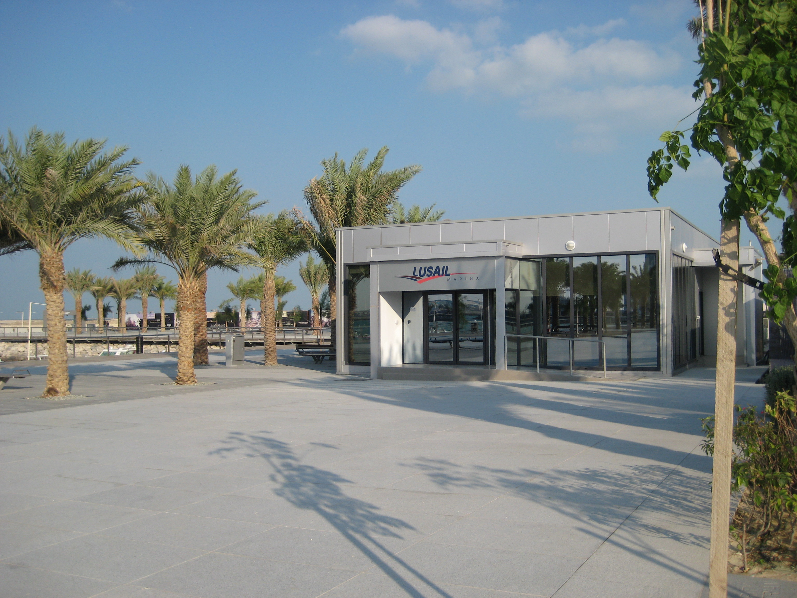 Lusail Marina is one of the first areas to open in Lusail City.